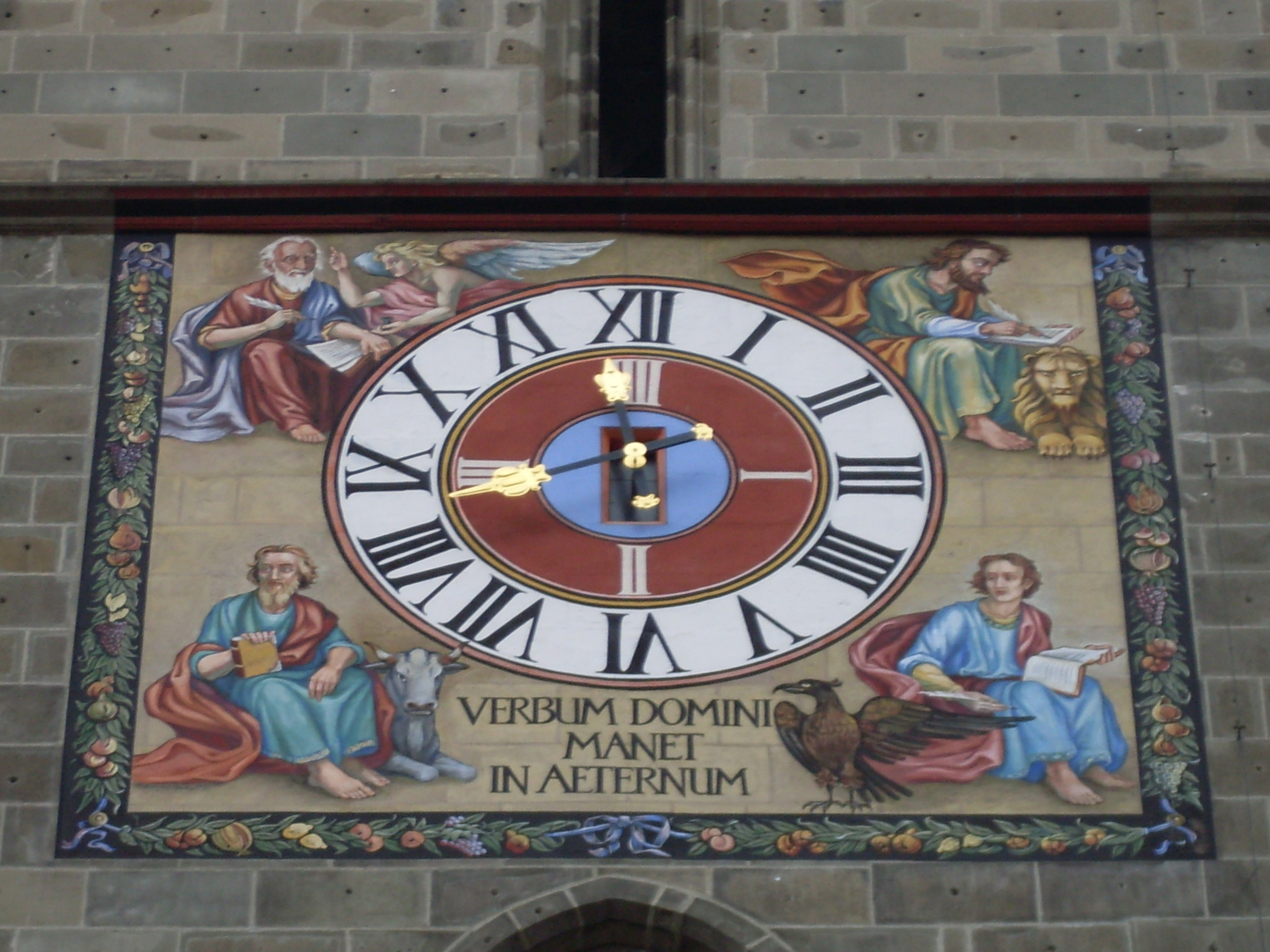 The only clock on Biserica Neagră of Braşov